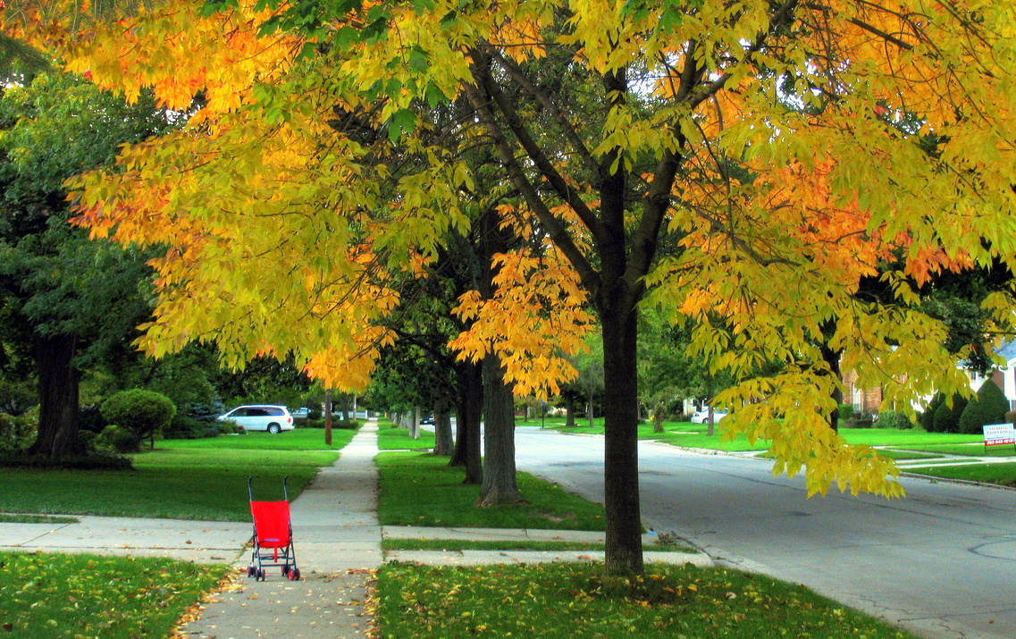 Nicer part of Kenosha's lakefront. The search for the missing baby continues.